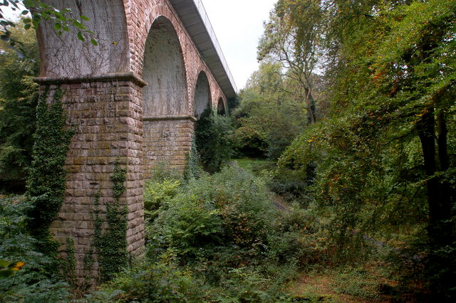 Crawfordsburn viaduct The Crawfordsburn viaduct carries the Belfast – Bangor railway across Crawfordsburn Glen. It dates from the opening of the line but has had its decking renewed in recent years. Belfast is to the right.